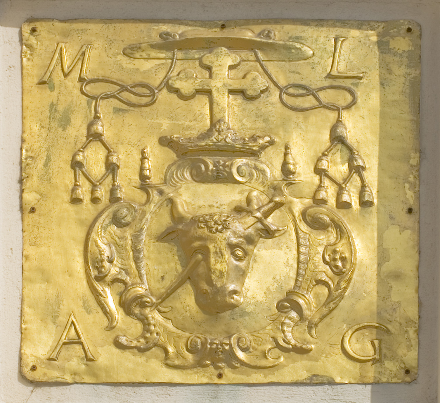 Pomian coat of arms (episcopal) in Gniezno Cathedral, Gniezno, Poland